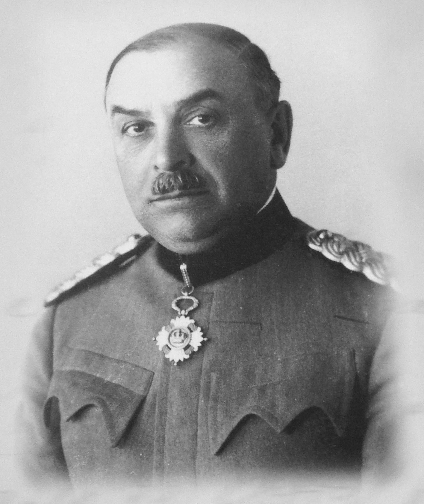 Dr. prof. Vladimir Stanojević (1886-1978)